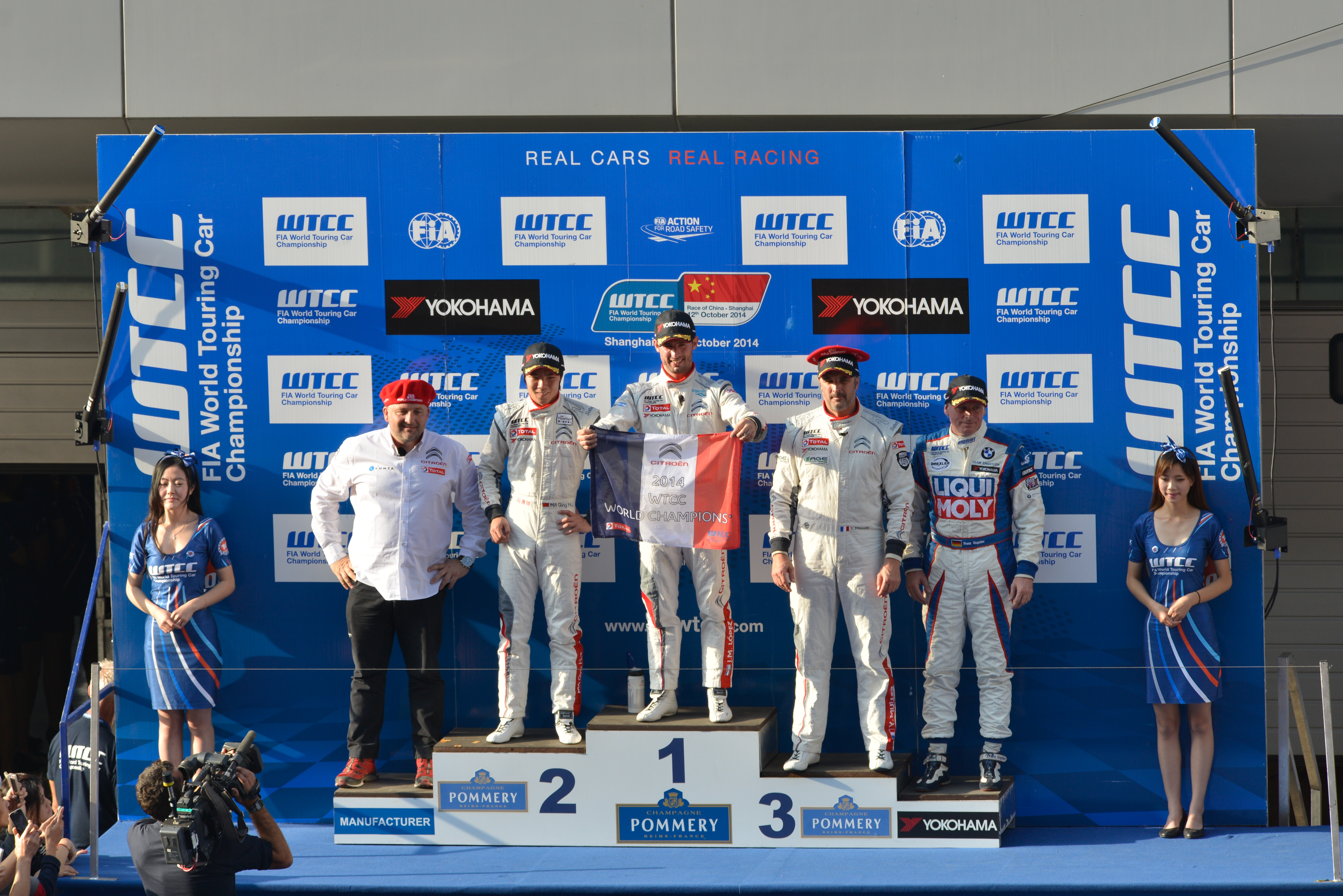 2014 WTCC Shanghai Race 1 Podium with José María López, Ma Qing Hua, Yvan Muller, Yves Matton and Franz Engstler